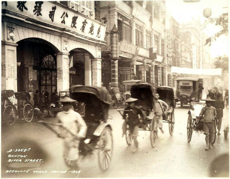 Sincere Department Store at Canton River Street(The Bund)